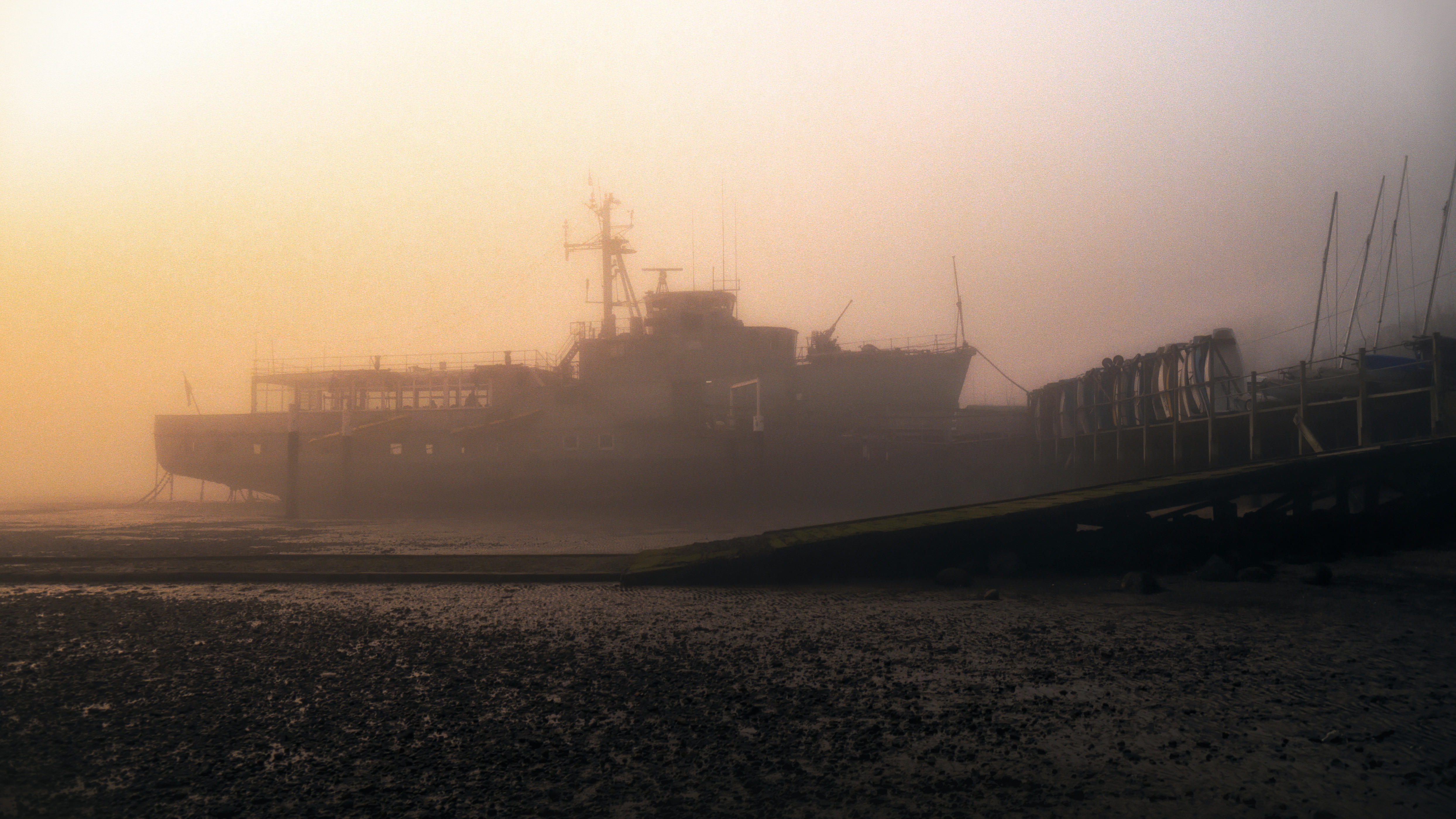 A foggy winters afternoon in Leigh-On-Sea